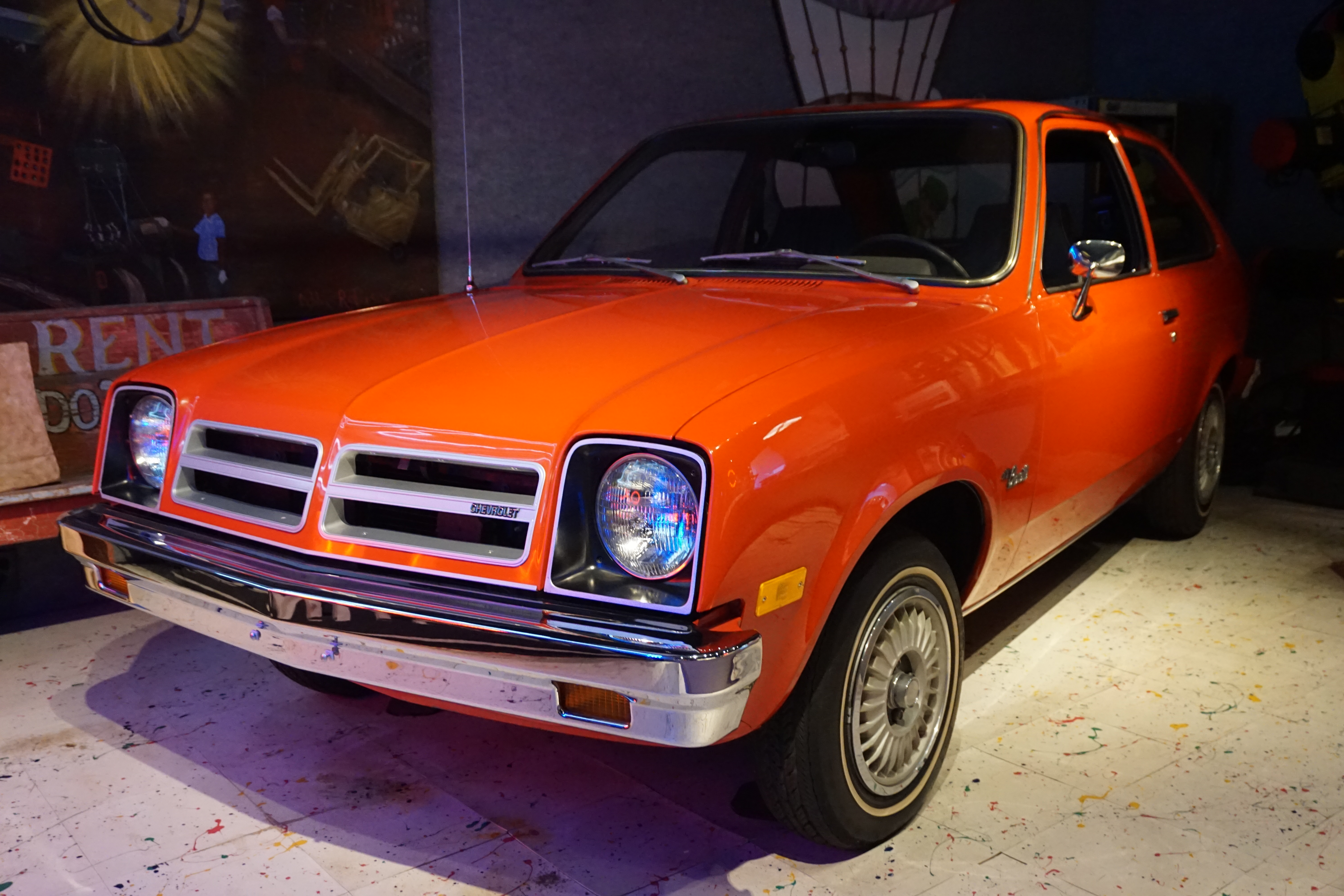 A 1976 Chevrolet Chevette at the Sloan Museum in Flint, Michigan (United States).